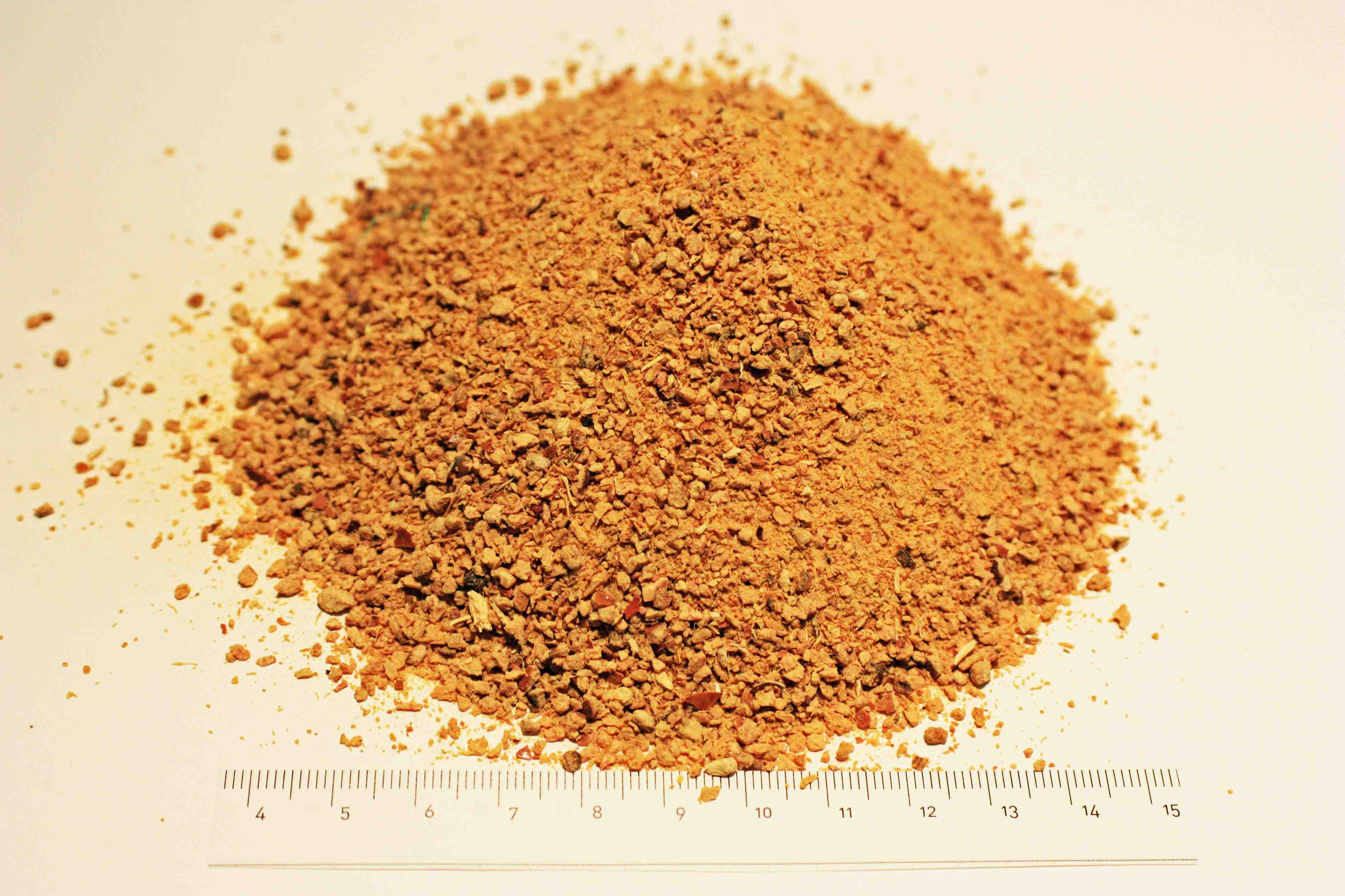 A herb tea of doum palm (Hyphaene thebaica) dates is made in Egypt.